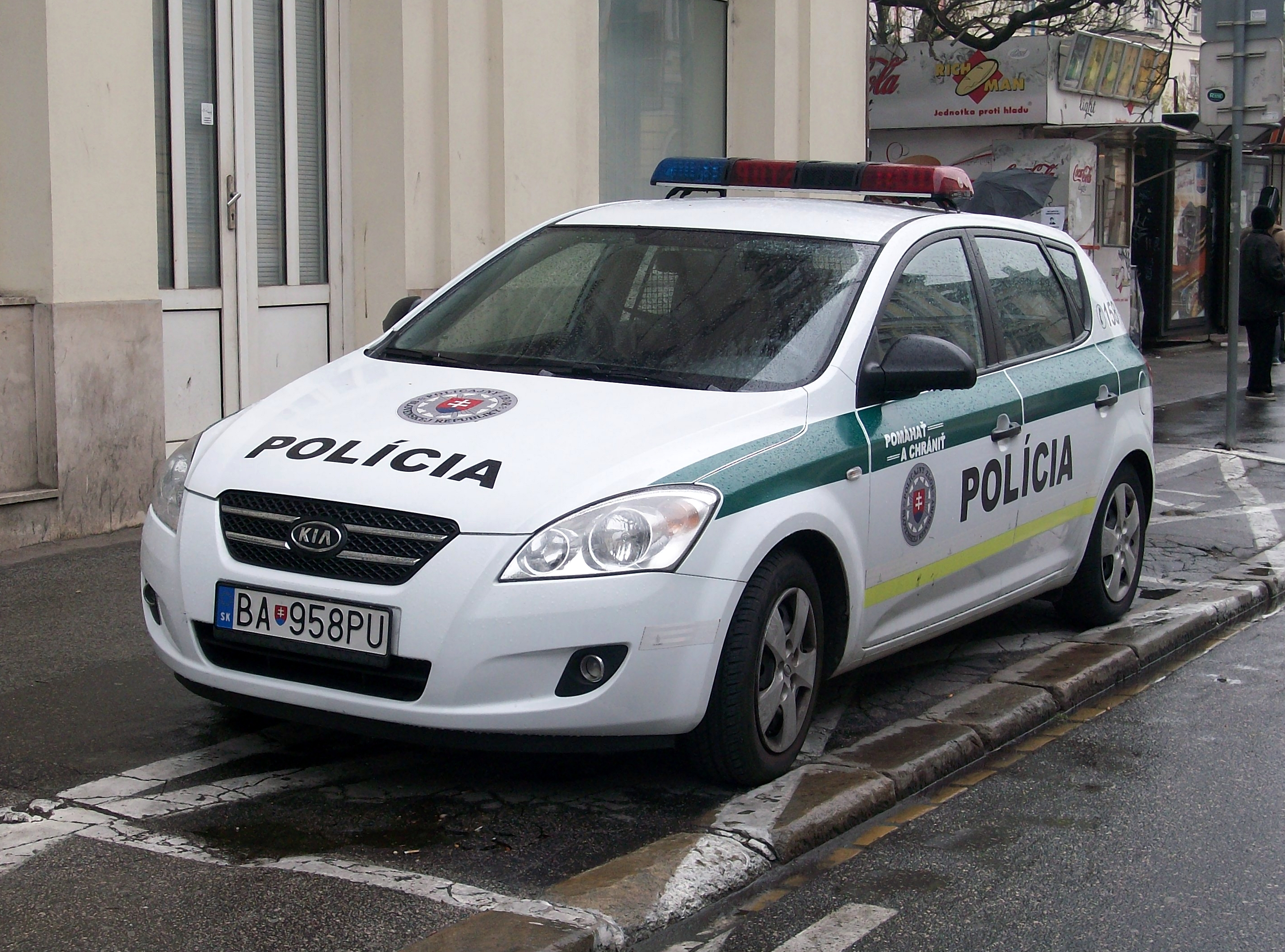 Policia slovakian Kia, Bratislava